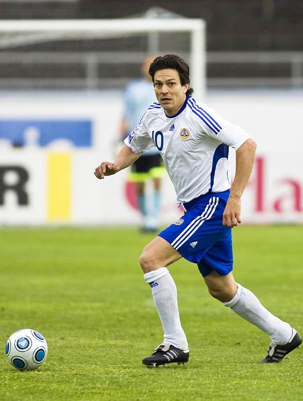 Football player Jari Litmanen